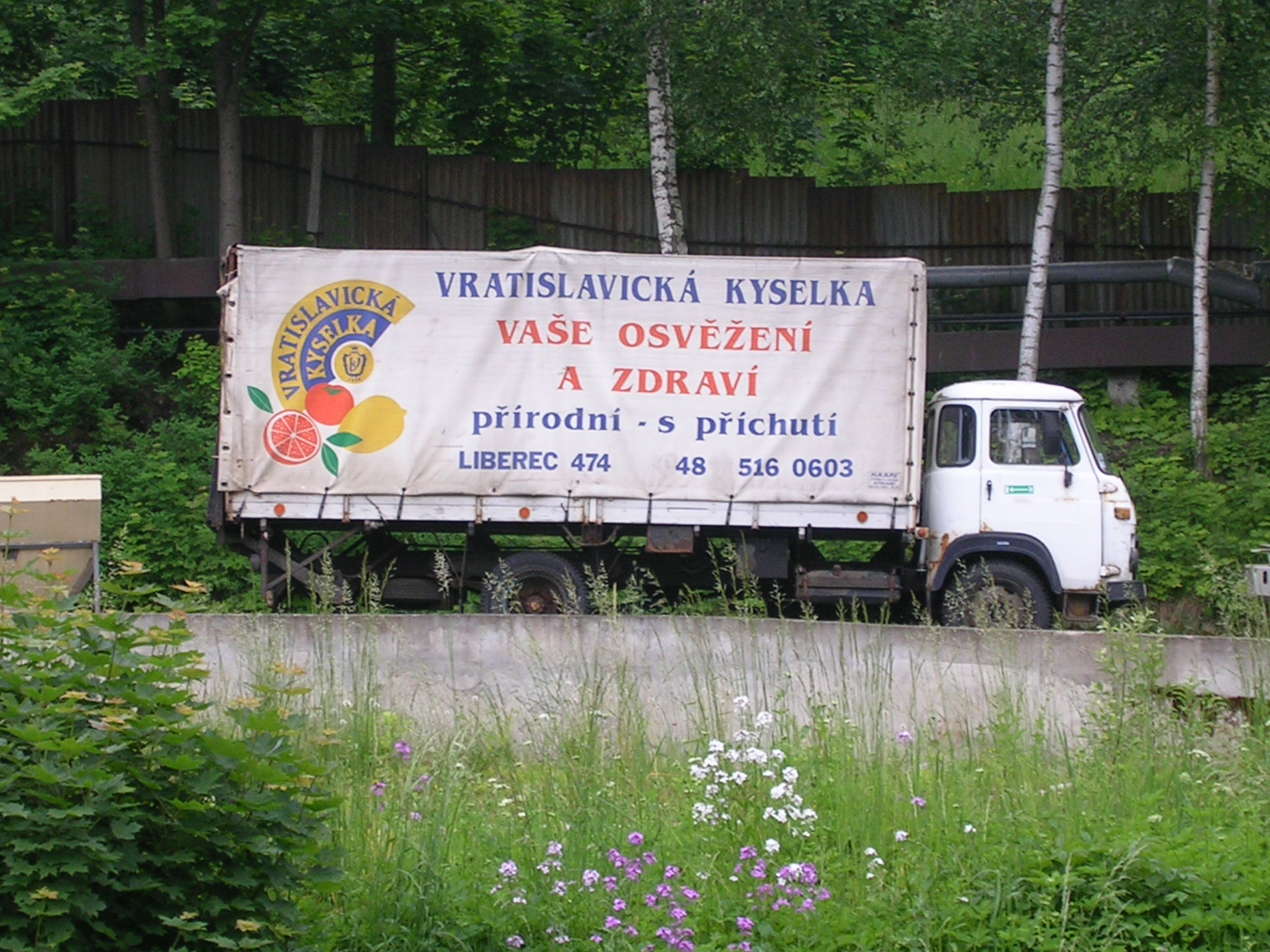 Vratislavice nad Nisou. The Czech Republic.